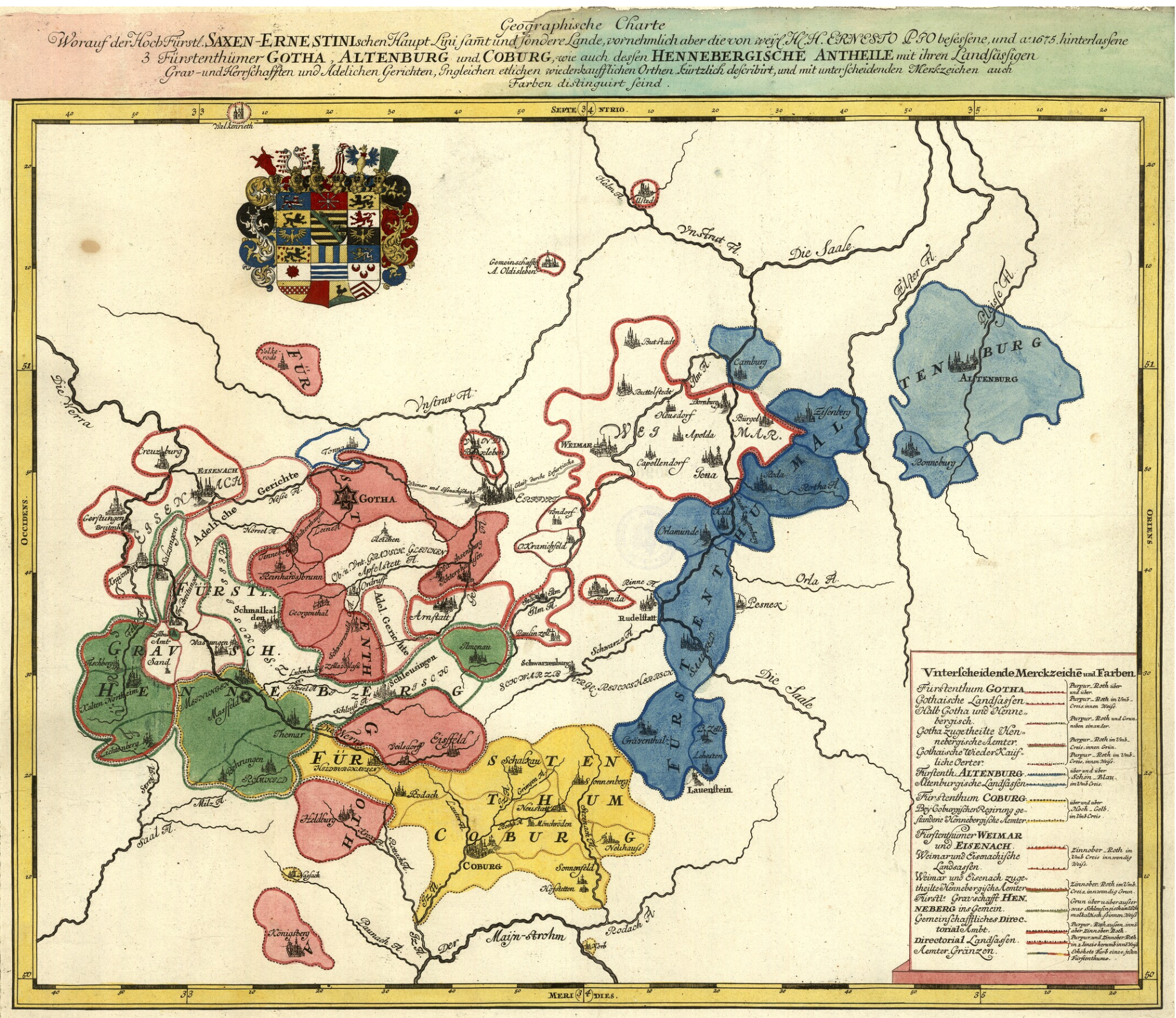 Map from the mid-eighteenth century showing the various Ernestine Saxon duchies. Created c. 1750 by historian, administrator and cartographer Friedrich Zollmann (1690–1762) Title: Geographische Charte Worauf der Hoch-Fürstl. Saxen-Ernestinischen Haupt Lini sammt und sondere Lande, vornehmlich aber die von weyl. H. H. Ernesto Pio besessene, und a. 1675 hinterlassene 3 Fürstenthümer Gotha, Altenburg und Coburg, wie auch dessen Hennebergische Antheile mit ihren Landsässigen Grav-und Herrschafften und Adelichen Gerichten, Ingleichen etlichen wiederkaufflichen Orthen Kürtzliche describirt, und mit unterscheidenden Merkzeichen auch Farben distinguirt seind.